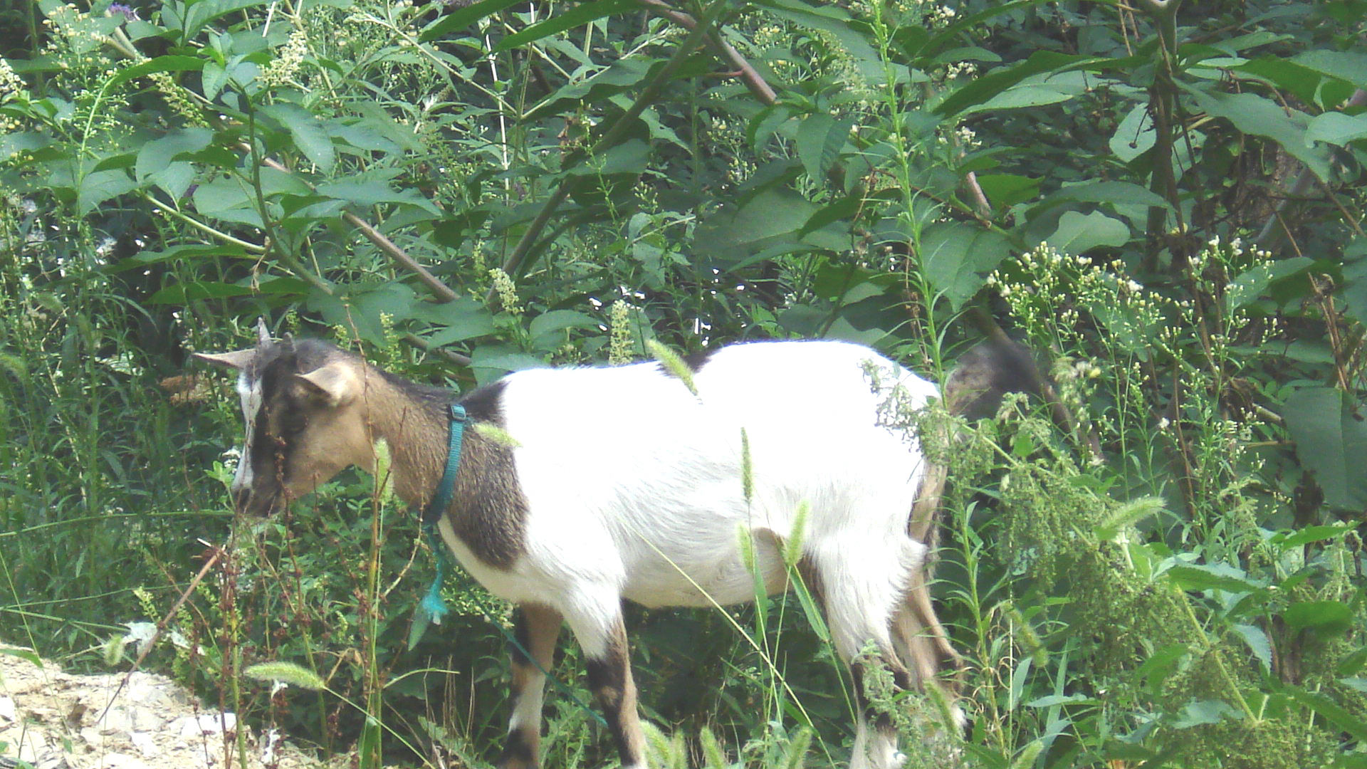 Goat's kid. Saint-Etienne-Vallée-Française Lozère